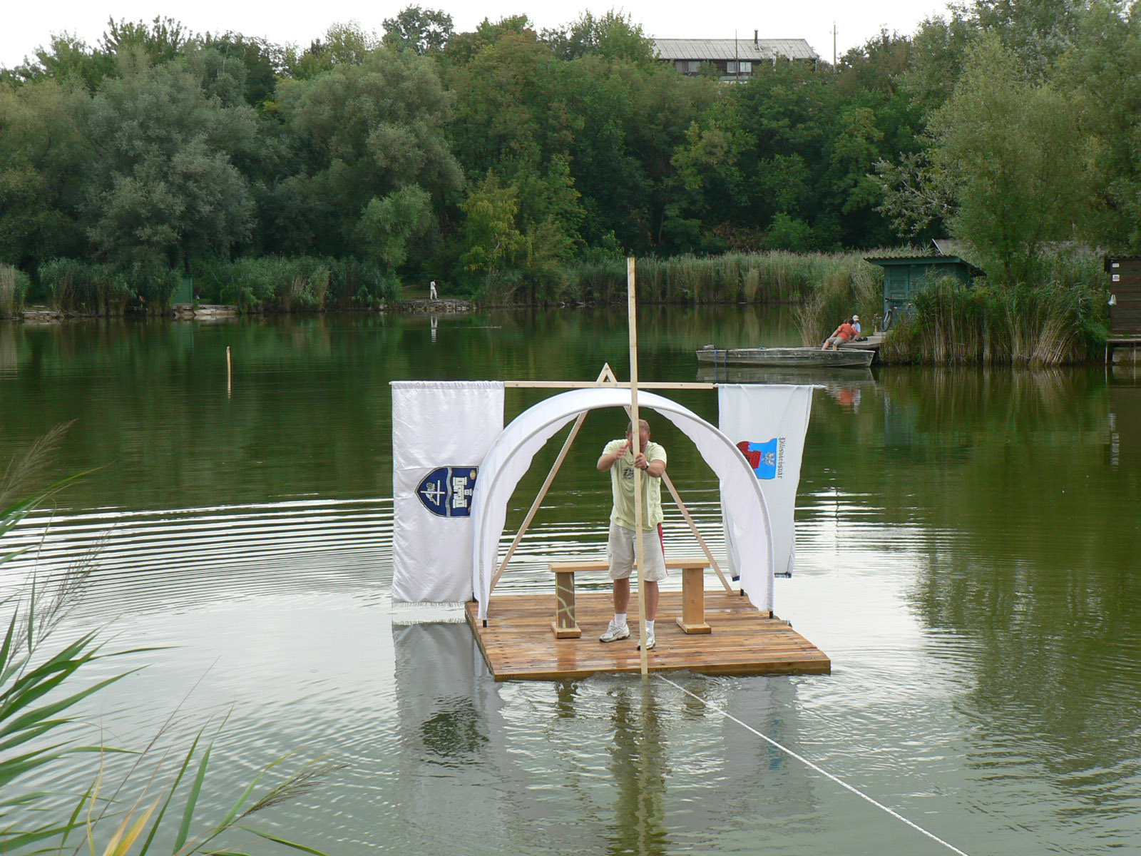 Tutajhúzó verseny 2007-ben a pilisvörösvári Kacsa-tavon